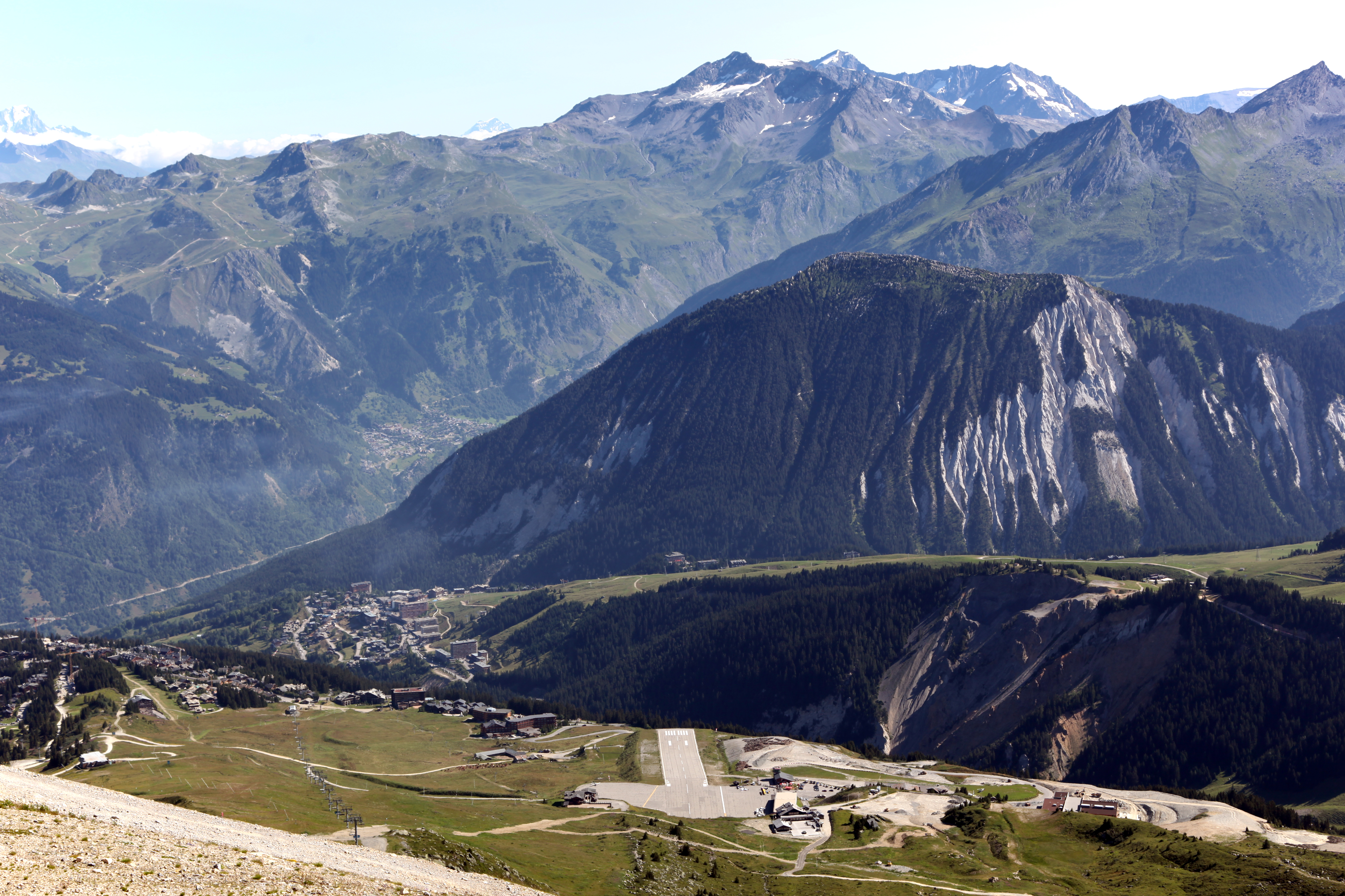 The Airport of Courchevel, called "altiport"